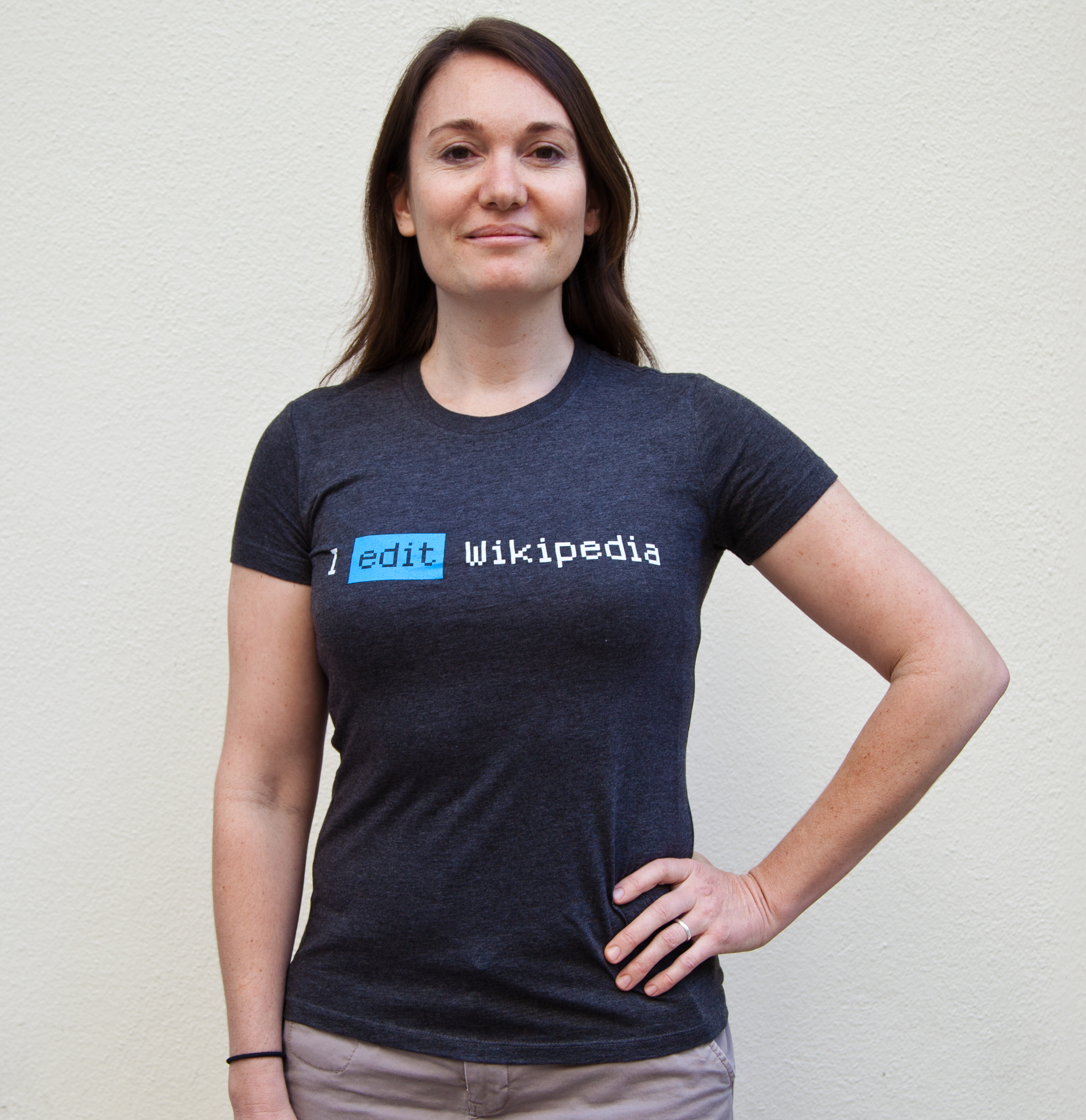 I Edit Wikipedia shirt for Wikimedia store